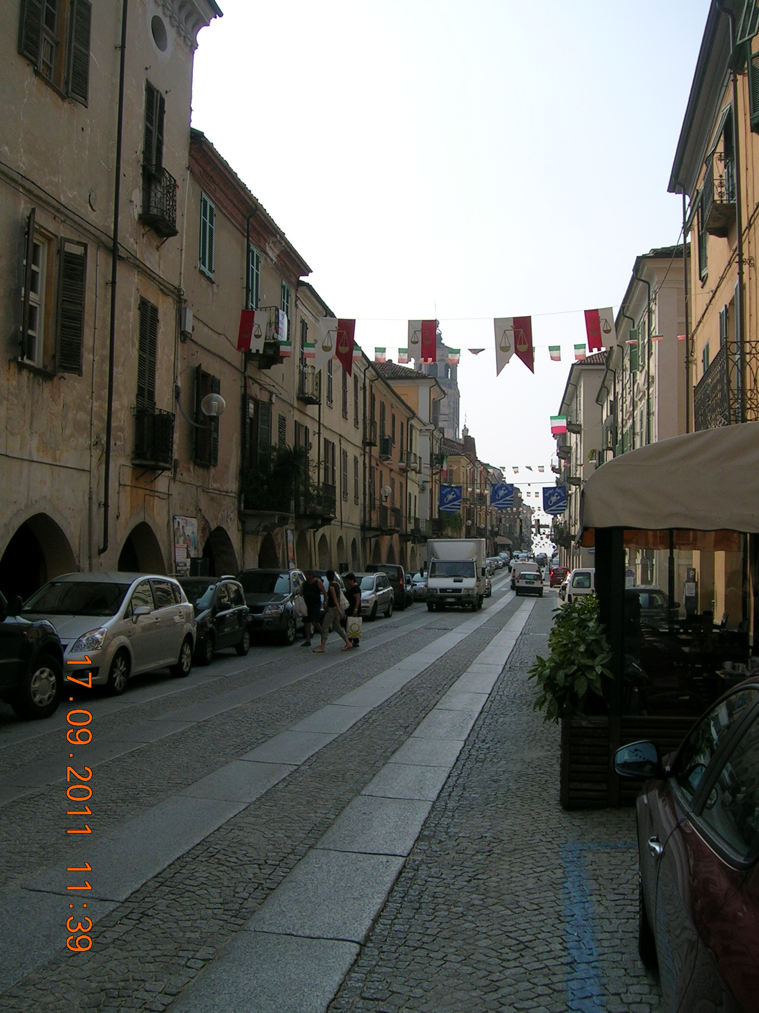 Via Roma, Fossano - Italy